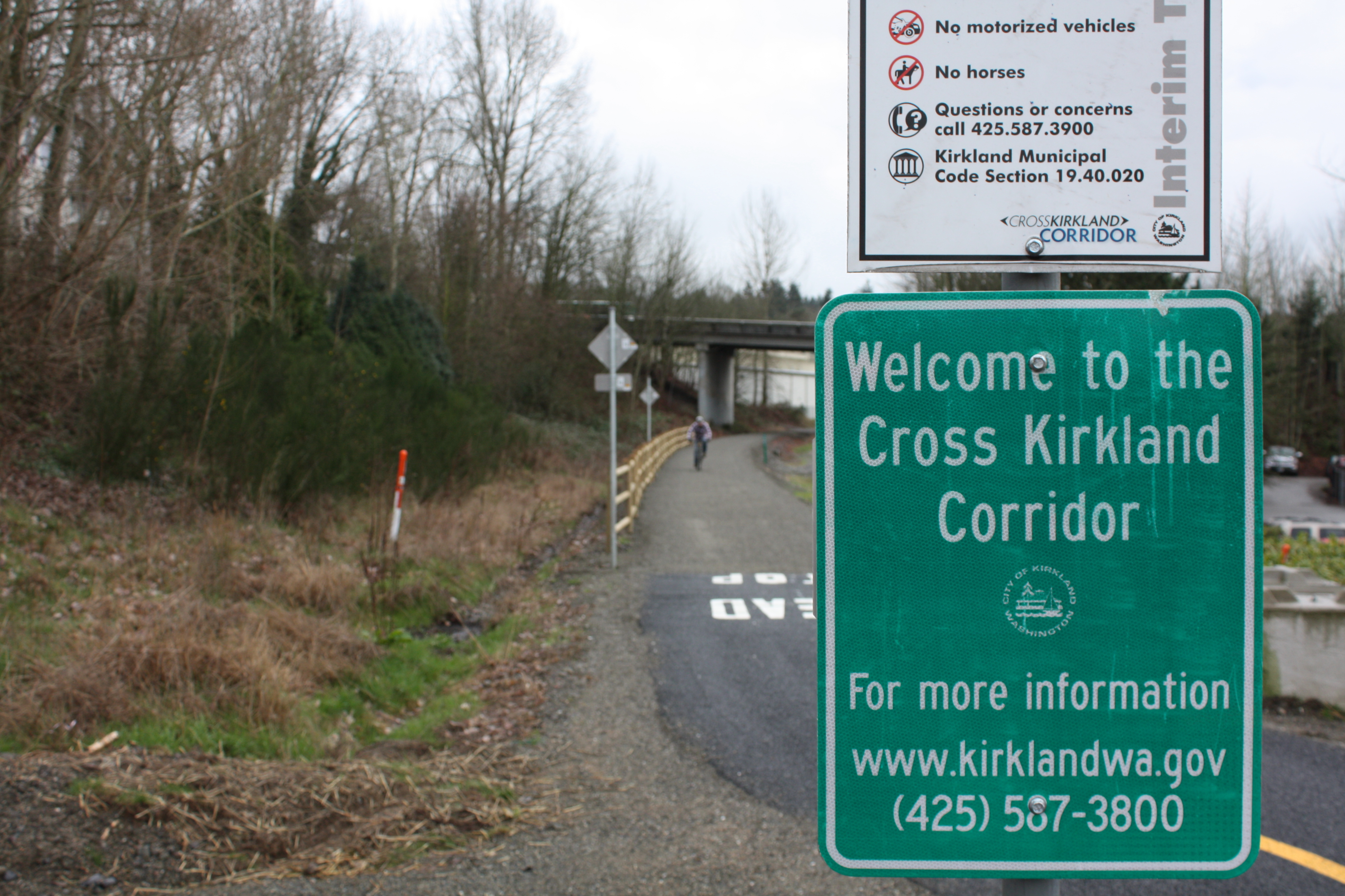 Cross Kirkland Corridor sign